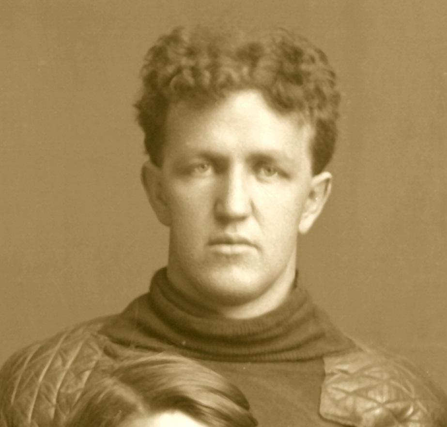 Photograph of George W. Gregory